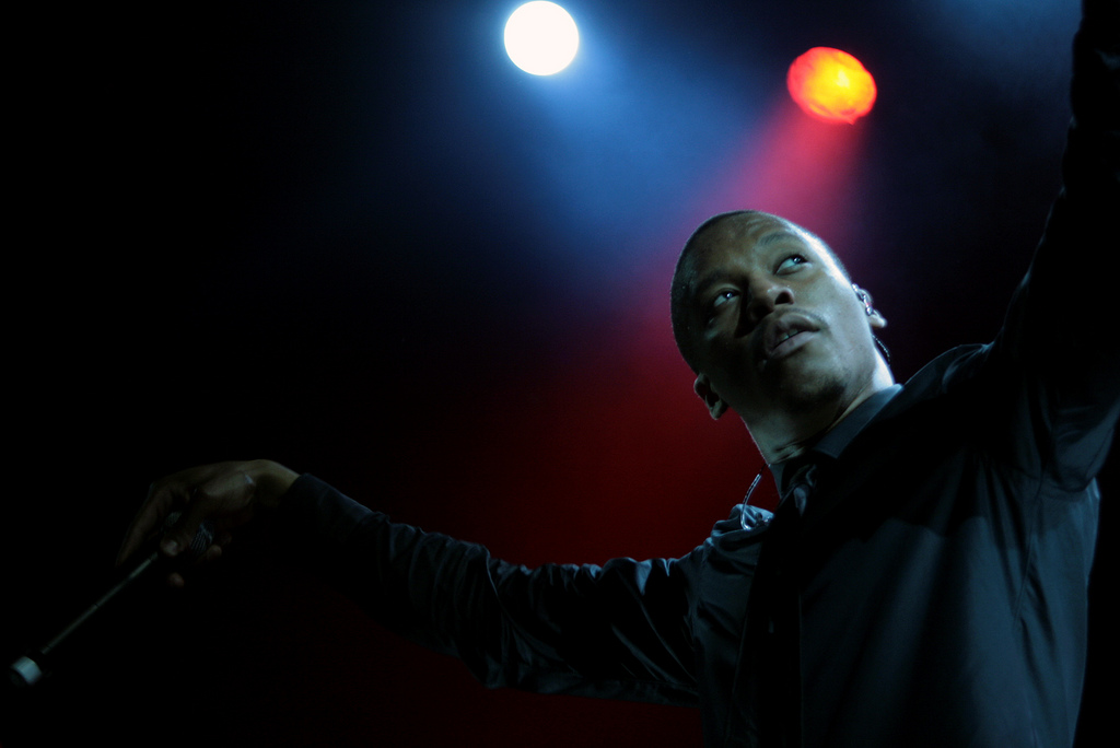 Lupe Fiasco performing in Dublin, Ireland on July 7, 2008